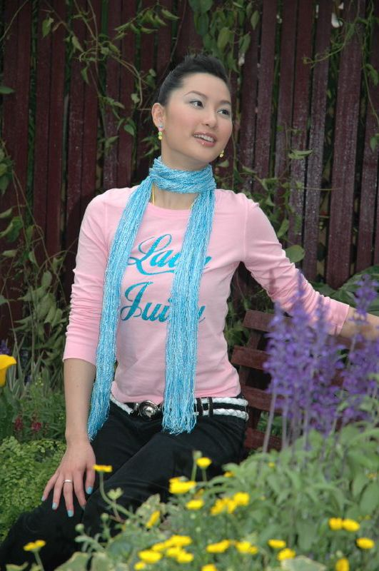 Kate Tsui at the 2005 Hong Kong flower show.